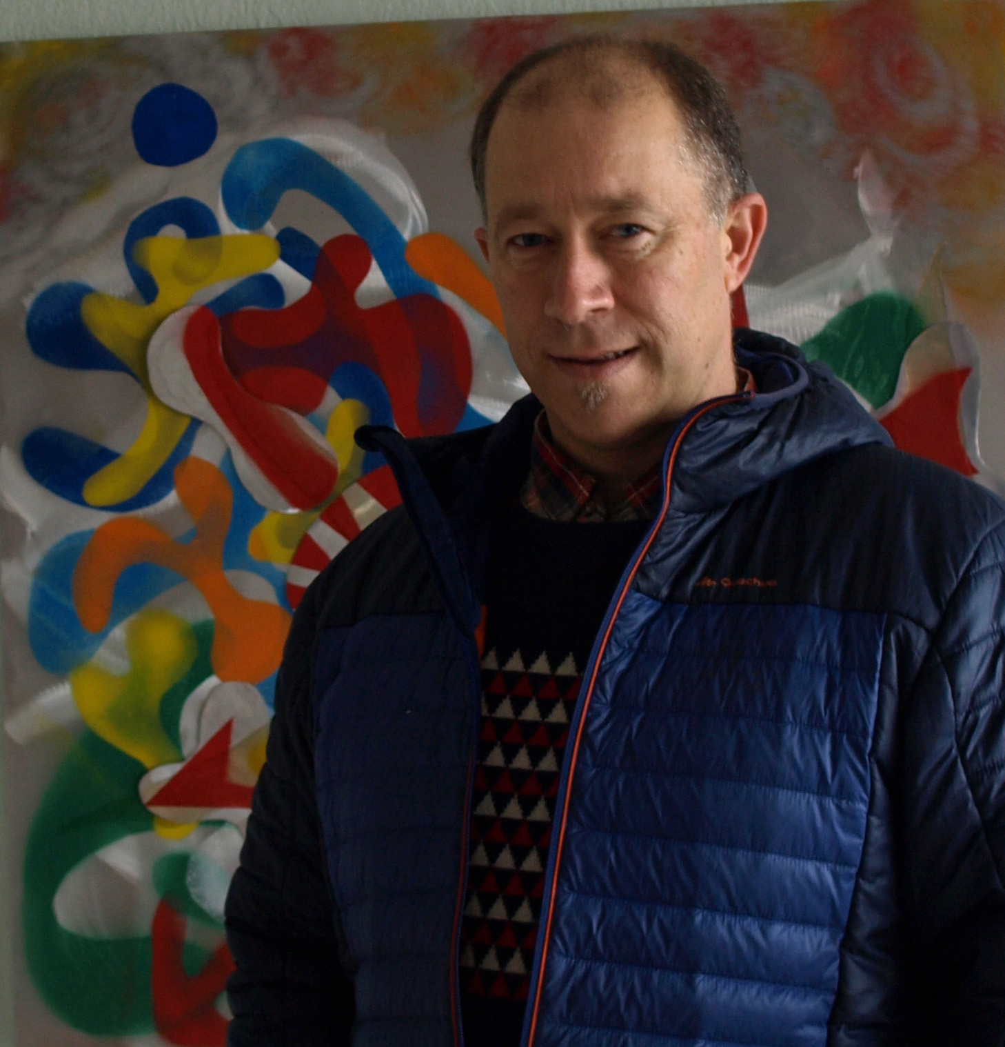 The Basque artist Aitor Ruiz de Egino